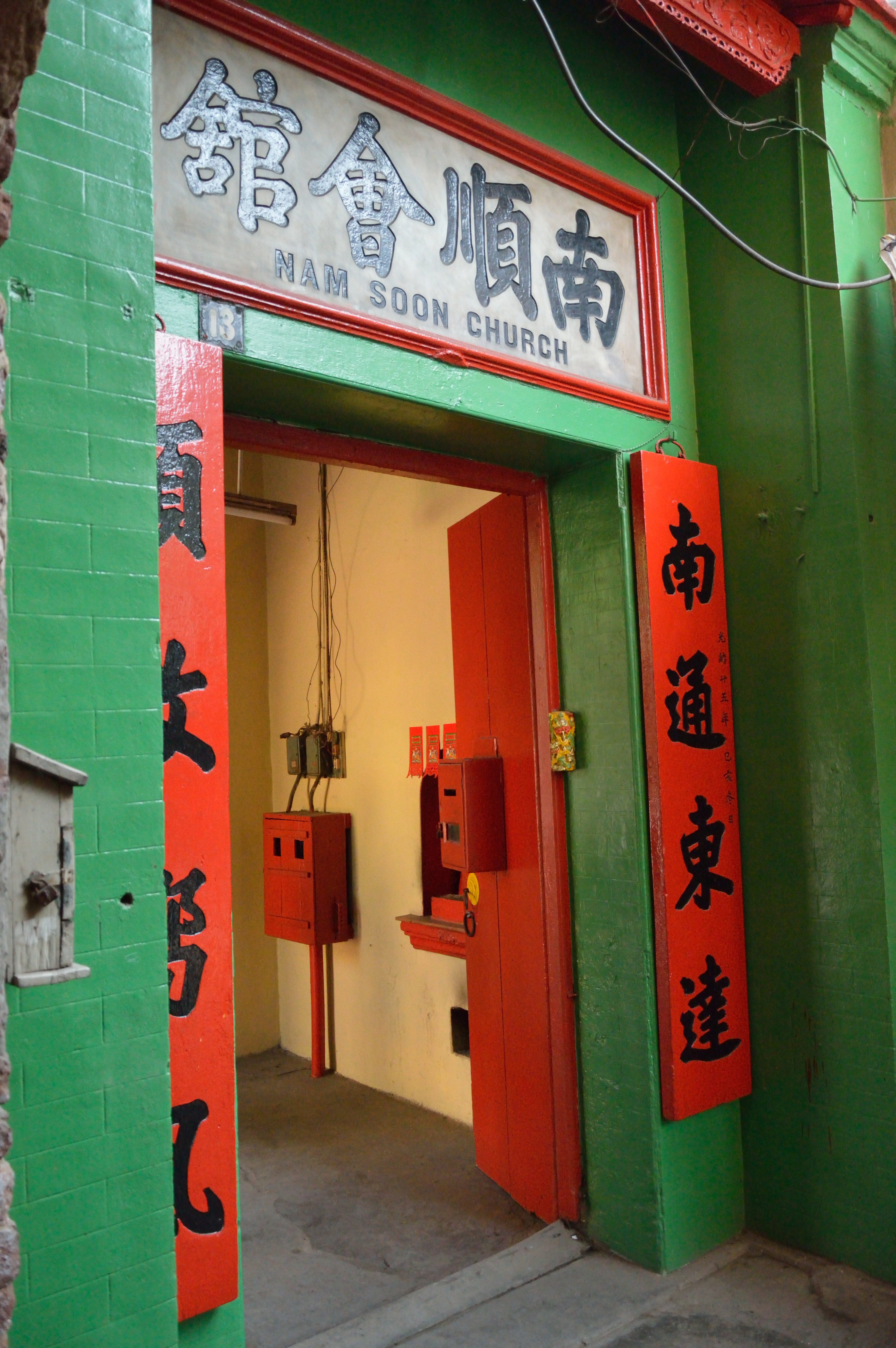 Nam Soon Church - This photograph has been taken during the 'Wikipedia/Wikimedia Photowalk' event for the 'Wikipedia Takes Kolkata II' campaign on 3 March 2013, in Kolkata.